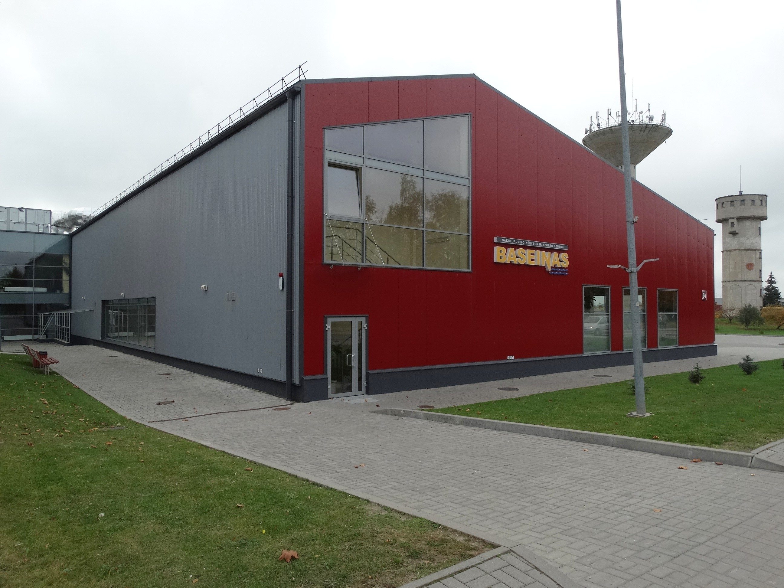 Sports centre, swimming pool, Šakiai, Lithuania